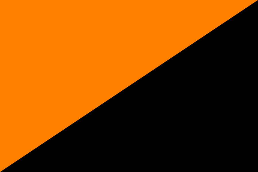 The orange-and-black diagonal flag used by Mutualists.